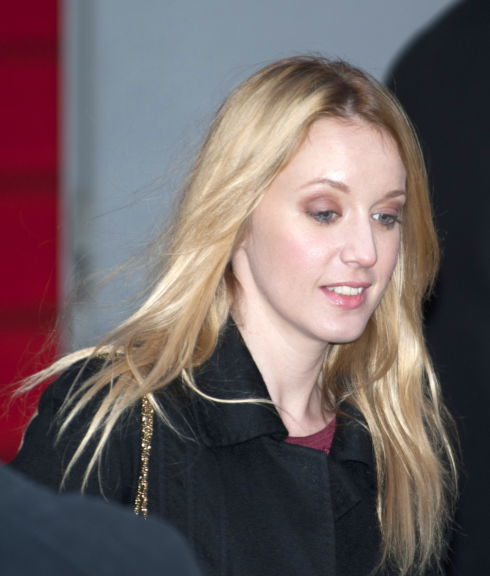 French actress Ludivine Sagnier leaving the press conference of her movie The Devil's Double at the Berlin Film Festival 2011